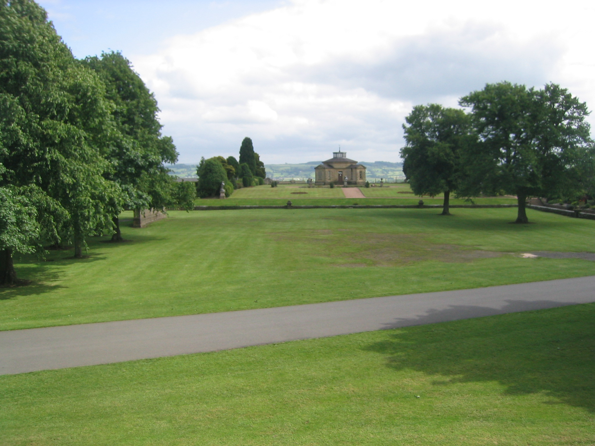 tea house, Stonyhurst College